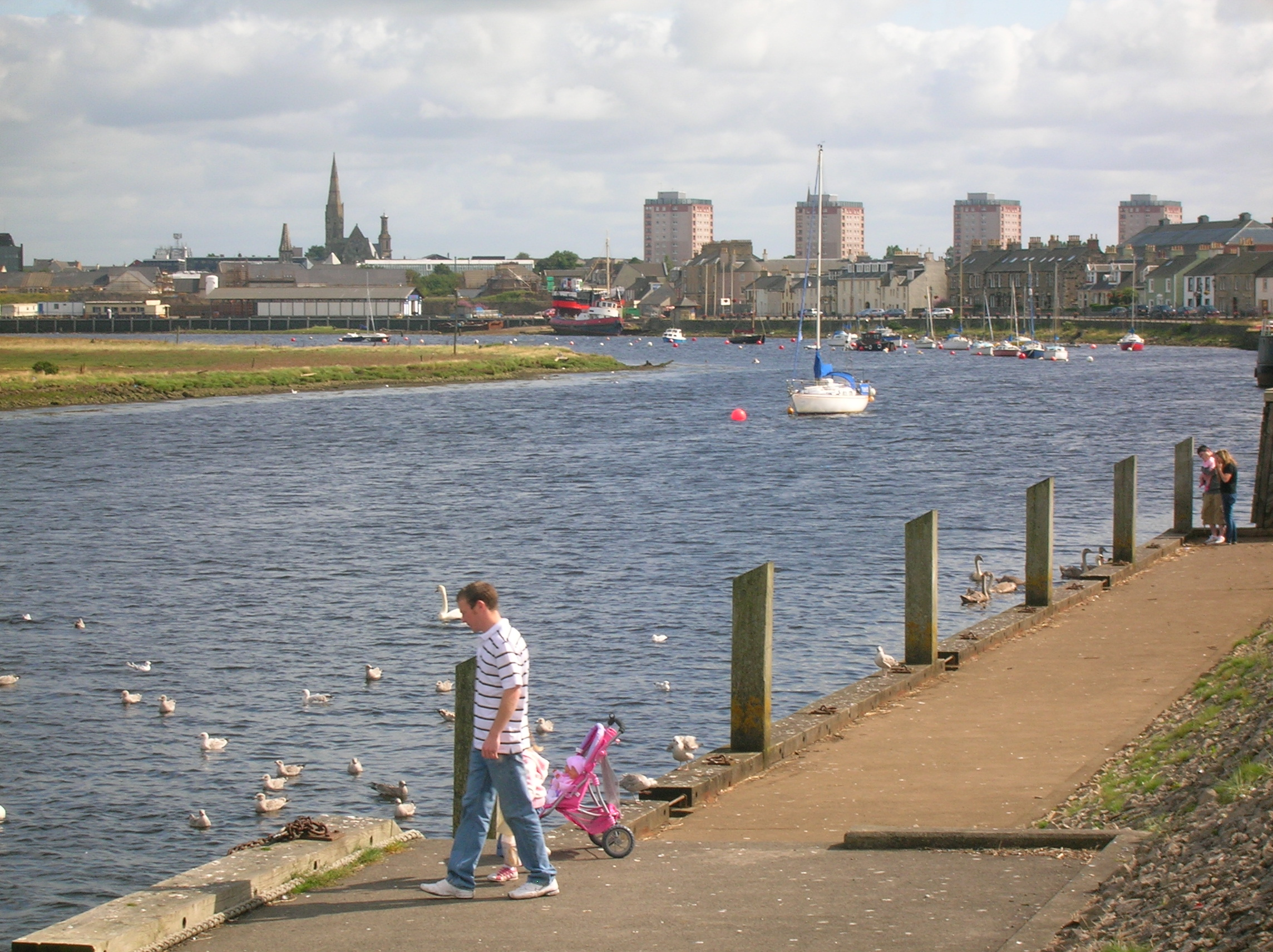 The river Irvine at Irvine harbour, North Ayrshire, Scotland.